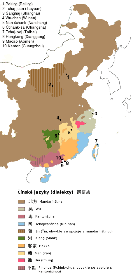 Map of Chinese language dialects, Czech version